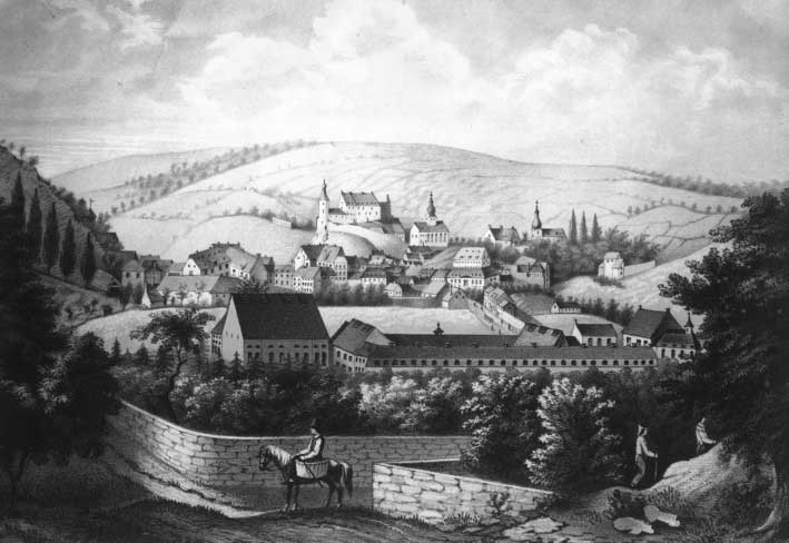 Stolberg and its castle, old painting